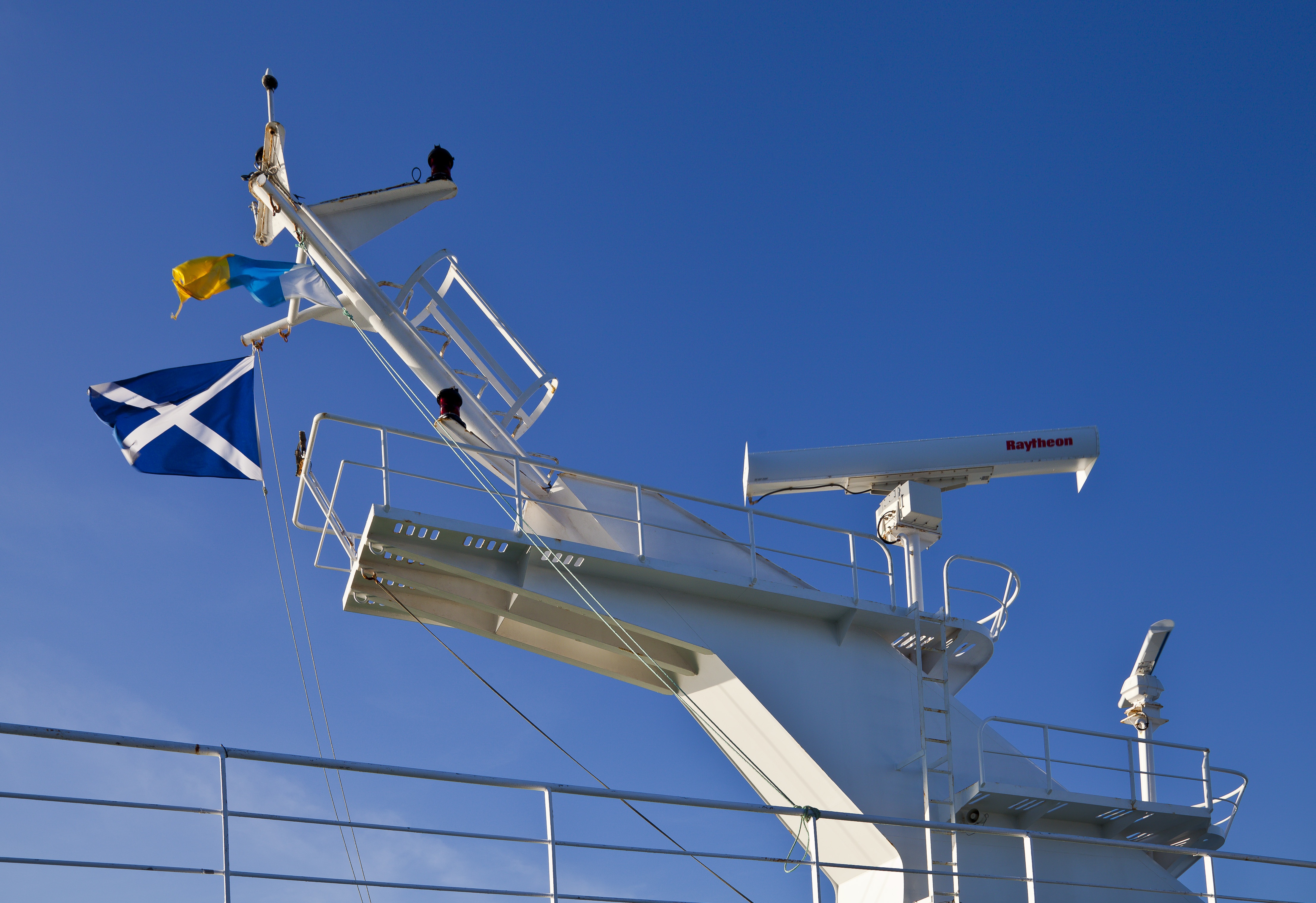 Radar, vessel Volcan de Taburiente, Tenerife, Spain